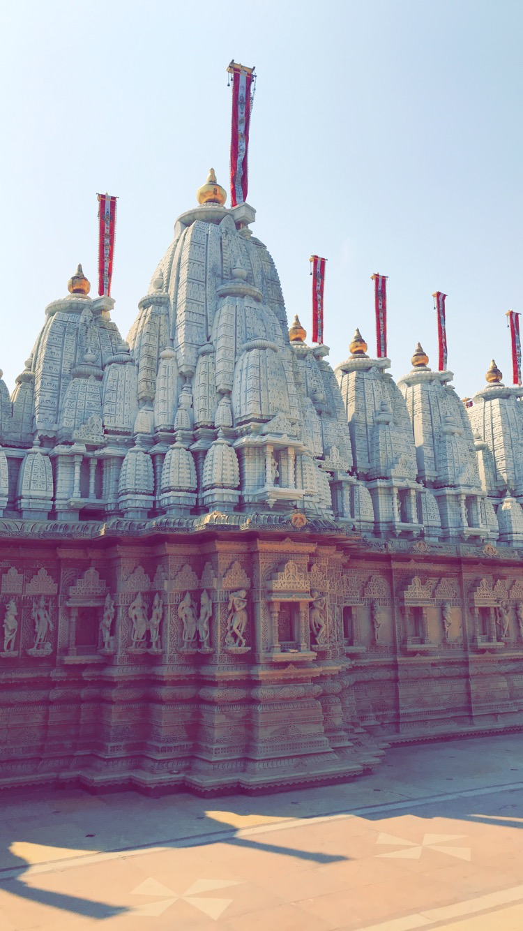 This Jain Pilgrimage Temple is known as which is 120 Km far from Ahmadabad –Gujarat, 60 Km far from Viramgam –Gujarat & 60 Km far from Patan Gujarat. In the year 1155 VE (1098 CE), Sajjan Shah built the Shankheshwar Parshwanath Jain Temple temple on the banks of the Rupen river. In Vikram Samvat 1286 (1229 CE), Vastupal Tejpal renovated this temple under the instructions of Vardhamansuri. There were 52 idols in the temple. In VS 1302, the king, awed by the idol and inspired by Uktasuri, renovated the temple substantially. In the fourteenth century VS, the temple was destroyed by Muslims. In the sixteenth century VS, under the inspiration of Vijaysensuri, a new temple with 52 idols was built. In VS 1760 (1703 CE), the sangha built the new temple and got the idol reinstalled. Besides the original sanctuary, the temple has an open square, a decorated square, a vast square and two assembly halls. The idol of Bhidbhanjan Parshvanath is in a small temple to the right of the main idol, and the idol of Ajitnatha is in a small temple to the left of the main idol. The idols of Dharanendra, Padmavati, Parshva, and Chakreshwari are also in the temple. On the tenth day of the month of Posh, the tenth day of the dark half of the month of Magasar, and during the Diwali days, thousand of pilgrims come to observe a two-day-long fast. At present, the temple complex is under renovation. The doors of the small temples on the passage for going around the temple are being enlarged, and the height of their summits will be raised. The current temple was built in 1811.